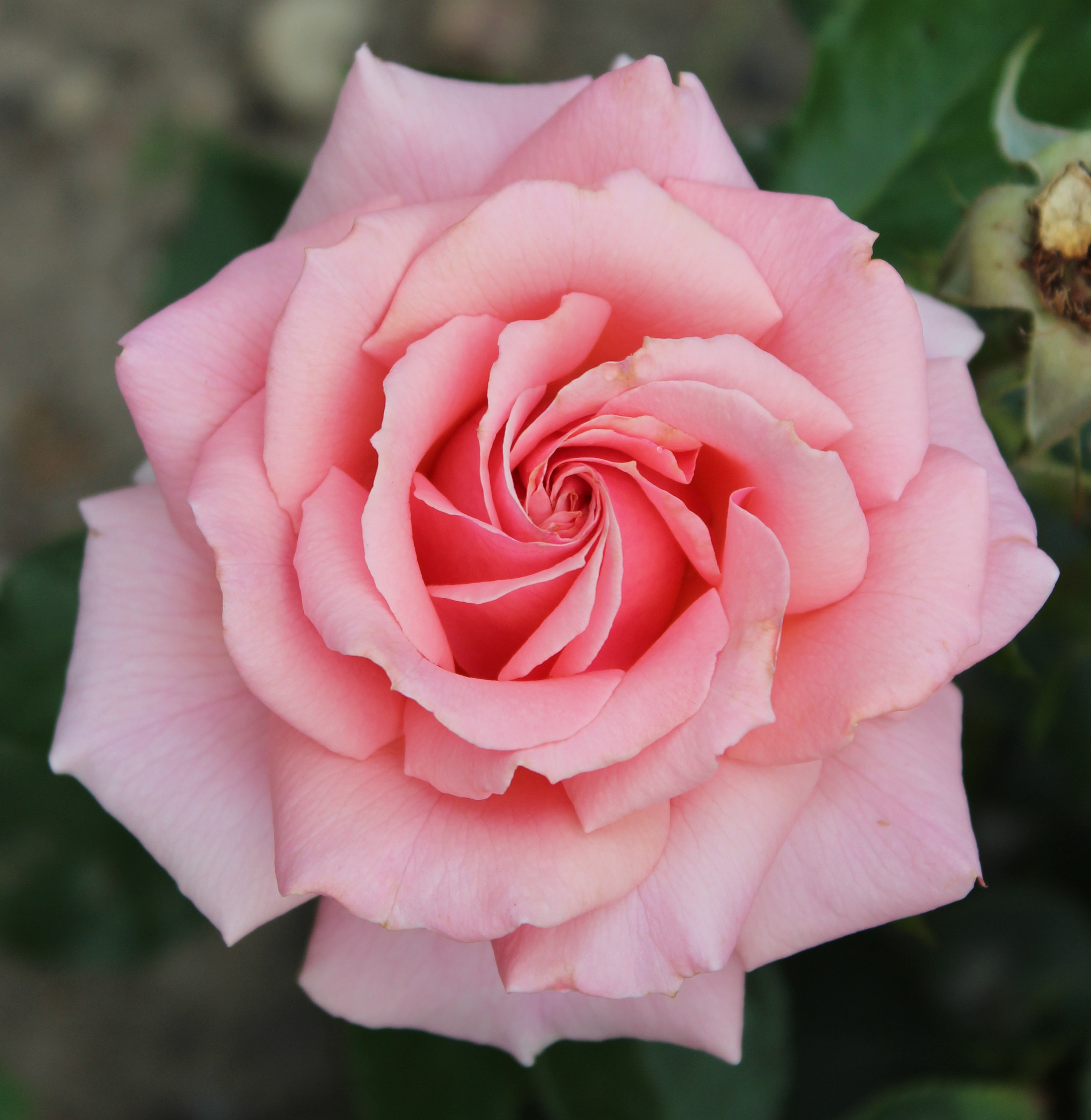 Rosa 'Poesie' in the Rosarium Wettsteinpark in Vienna. Identified by sign.